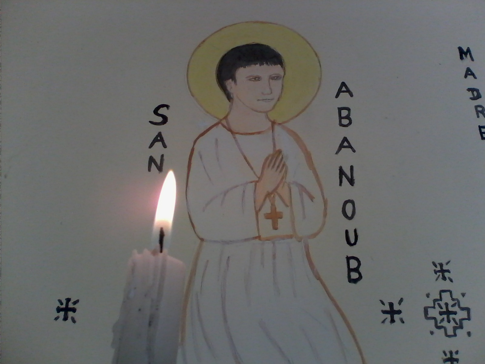 icon the sain abanoub